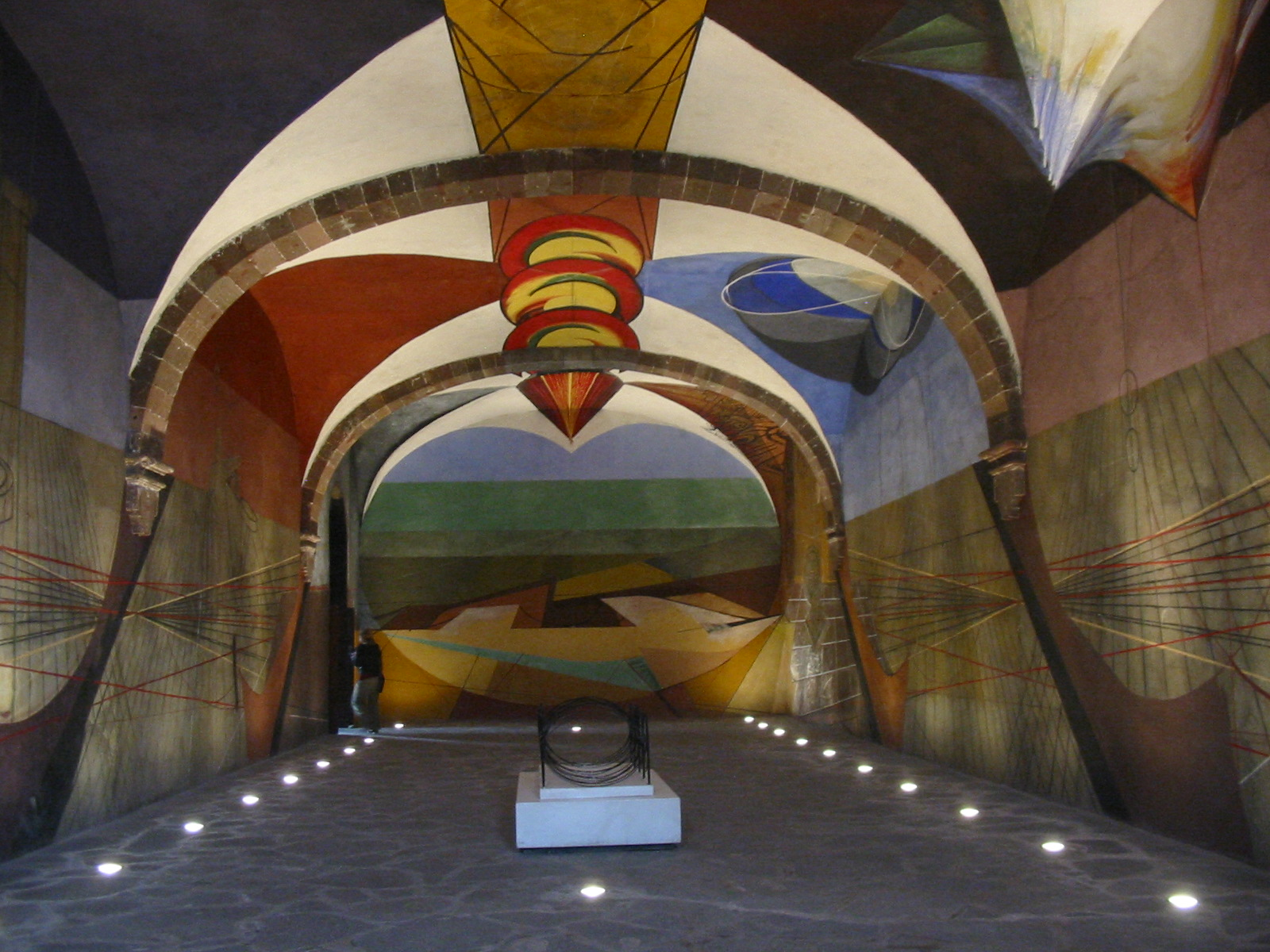 Unfinished 1940s mural painted by David Alfaro Siqueiros, in Escuela de Bellas Artes cultural center, an art school in a former convent, San Miguel de Allende, Mexico. This is a public place.